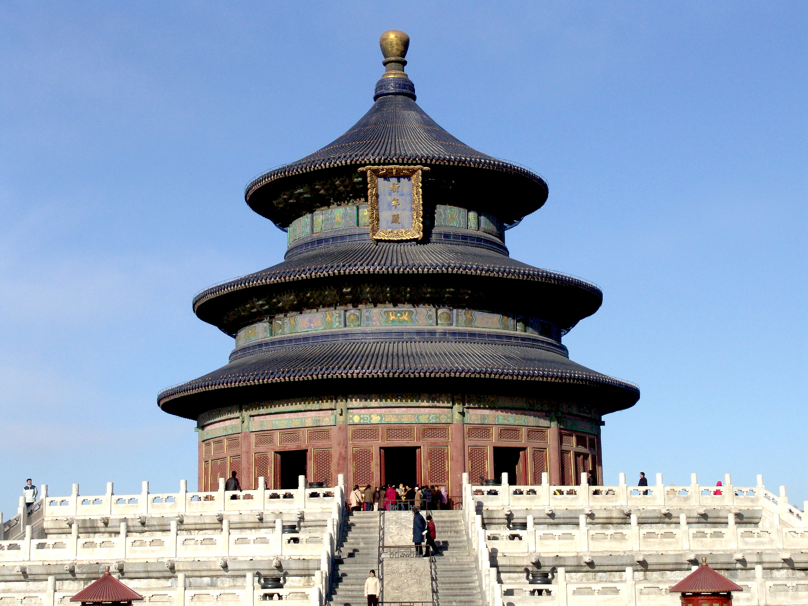 Temple of Heaven